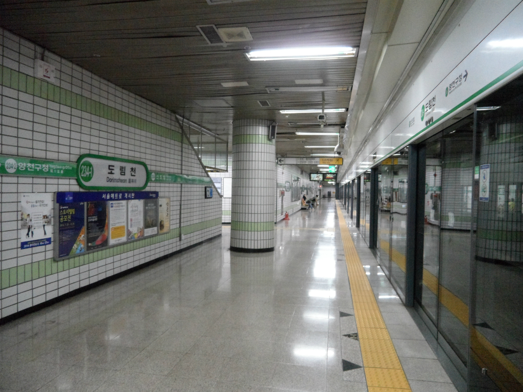 Platform of Dorimcheon Station